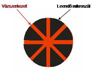 Principle of manufacturing of microfibres from bicomponent fibre. - Vázszerkezet=Framework; Leendő mikroszál=Microfibre-to-be